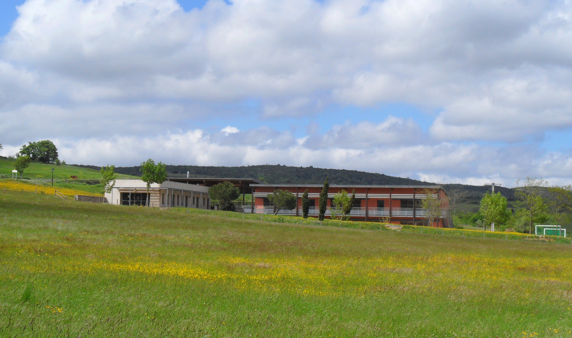 School of Mouthoumet, Aude, France